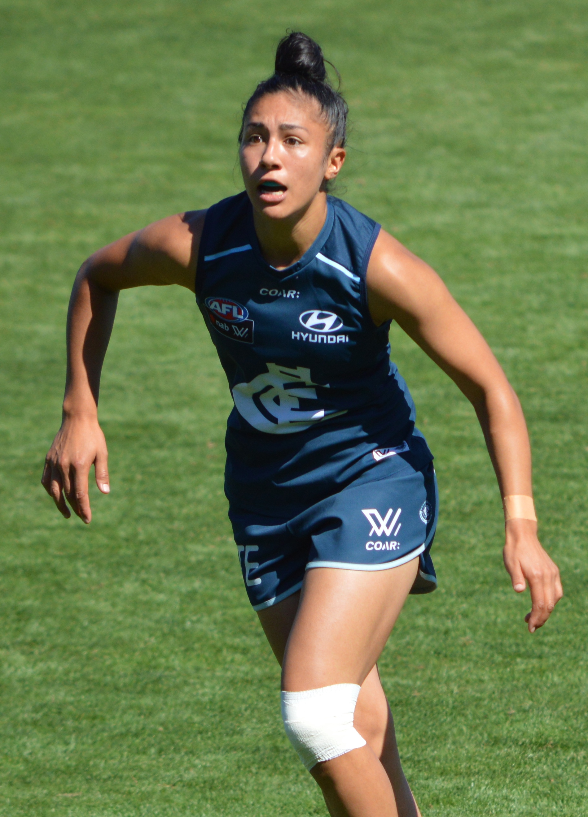 Darcy Vescio with Carlton in March 2017